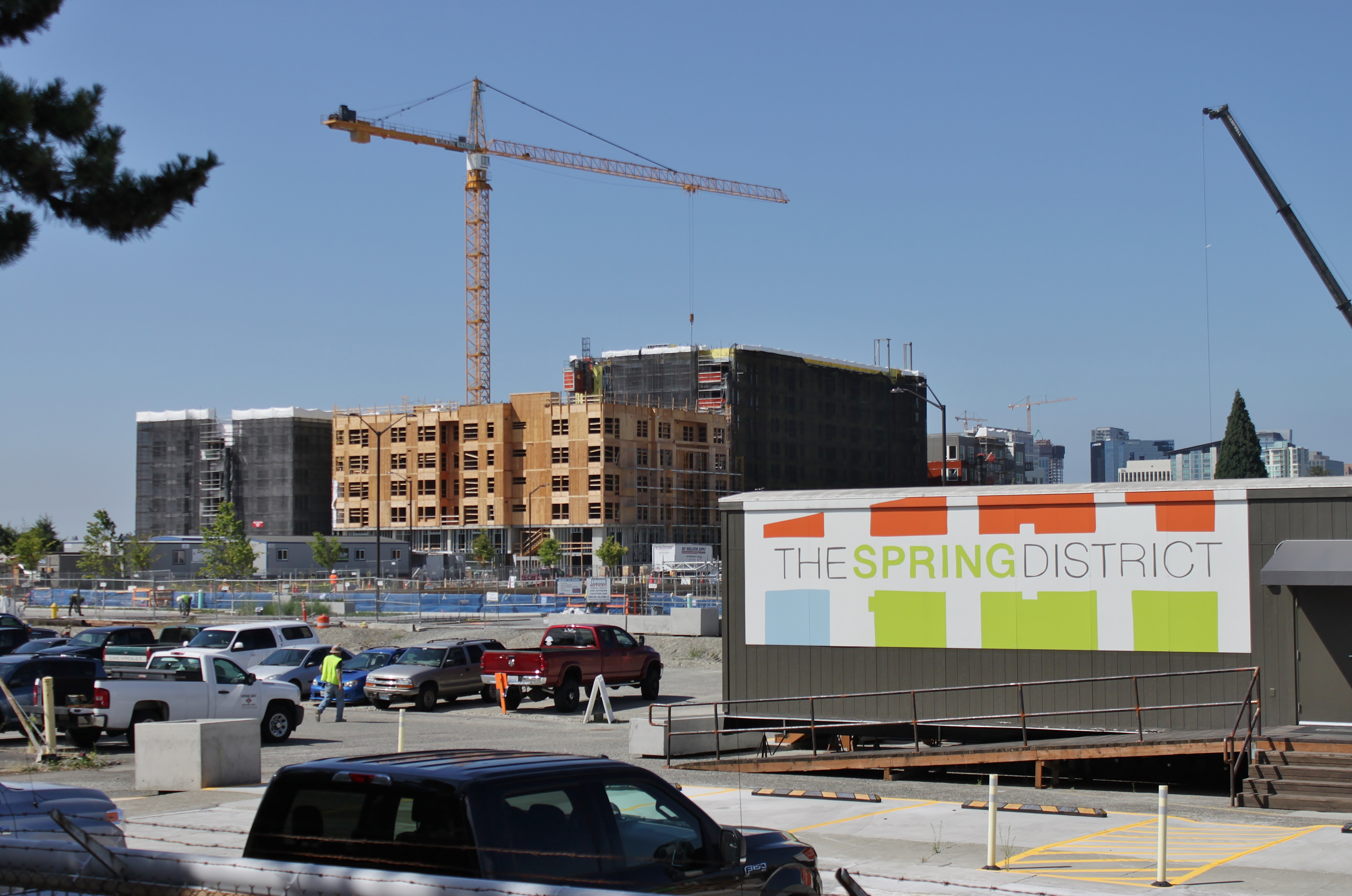 Construction of the Spring District, a planned transit-oriented development in Bellevue, Washington, in August 2016.